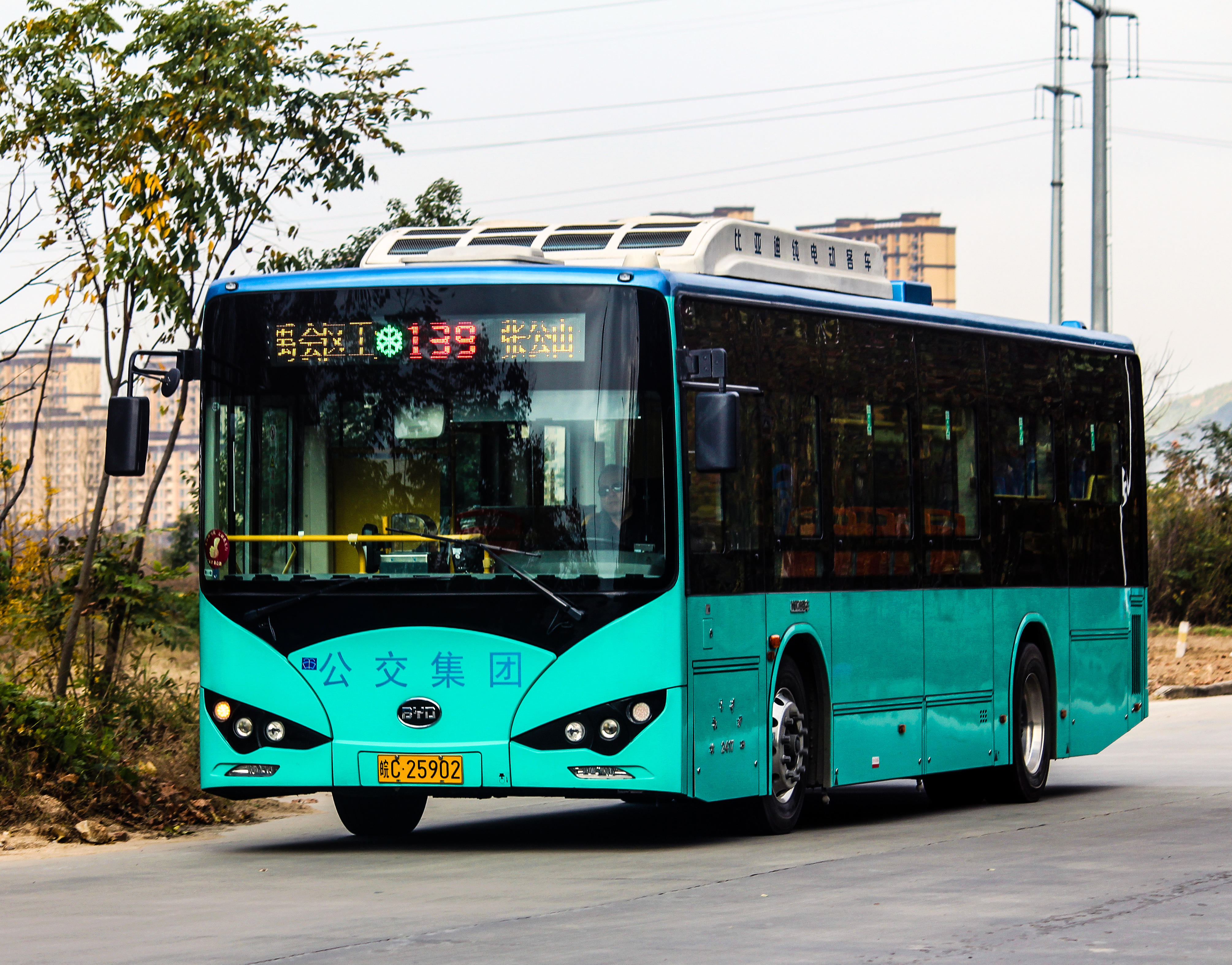 中文（中国大陆）: Bengbu Bus No.139 with BYD K8